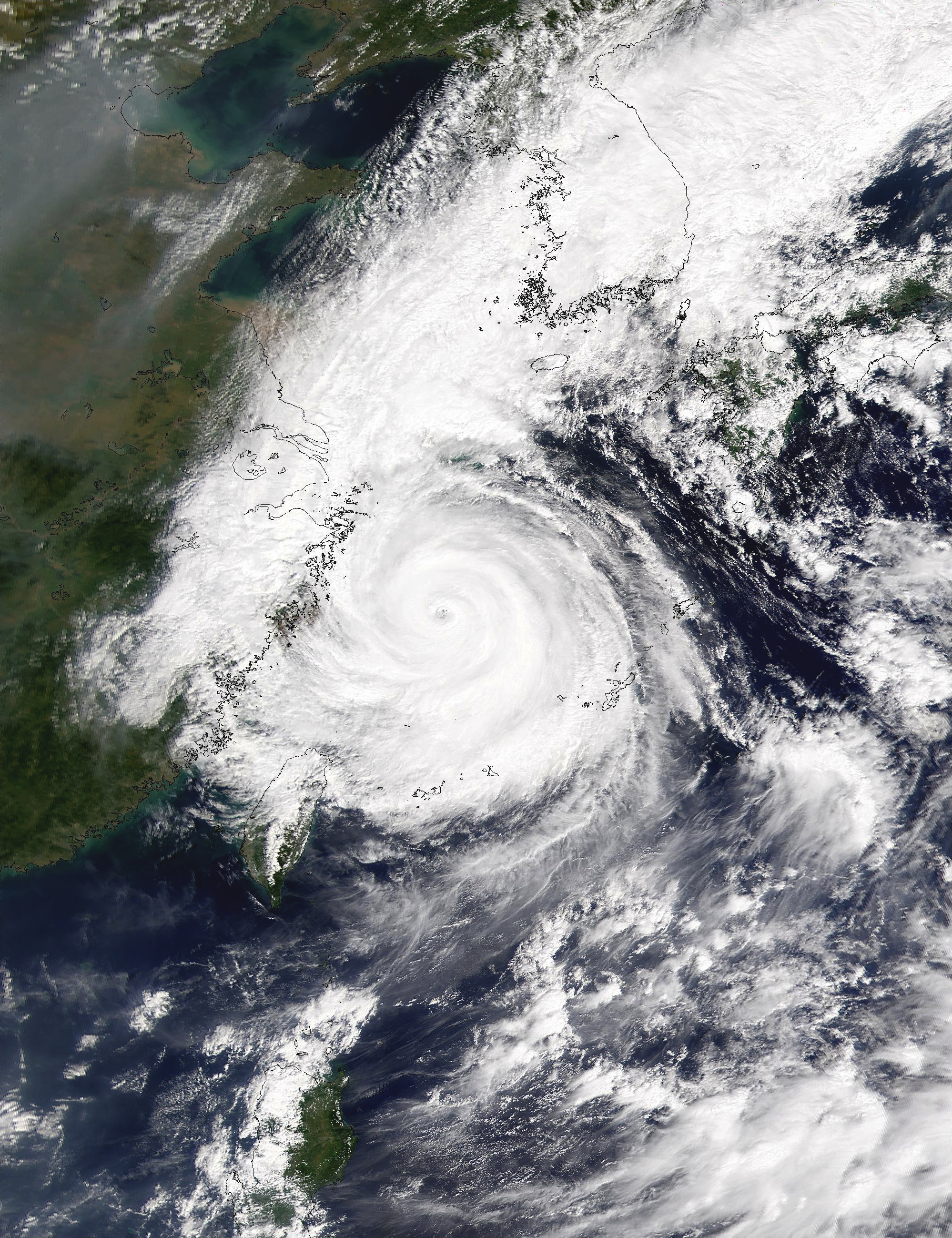 Satellite image of Typhoon Saomai in the East China Sea on September 14, 2000.